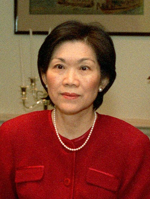 Singapore's Ambassador to the U.S. Chan Heng Chee pictured during a meeting with Singapore's Senior Minister Lee Kuan Yew and US Secretary of Defense Donald H. Rumsfeld (not shown) in the Pentagon on May 2, 2002.